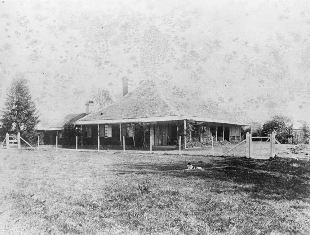 View across the grass to Cressbrook Homestead, ca. 1887 Cressbrook was established in 1841 by David McConnel and his brother John in the Brisbane Valley. It was the first pastoral run to be settled east of the Great Dividing Range in the Moreton Bay District. They farmed the land and ran beef cattle. Later they established a condensed milk factory in the area.The original homestead at Cressbrook is still standing, and is still owned by the McConnel family, the fourth generation of ownership.